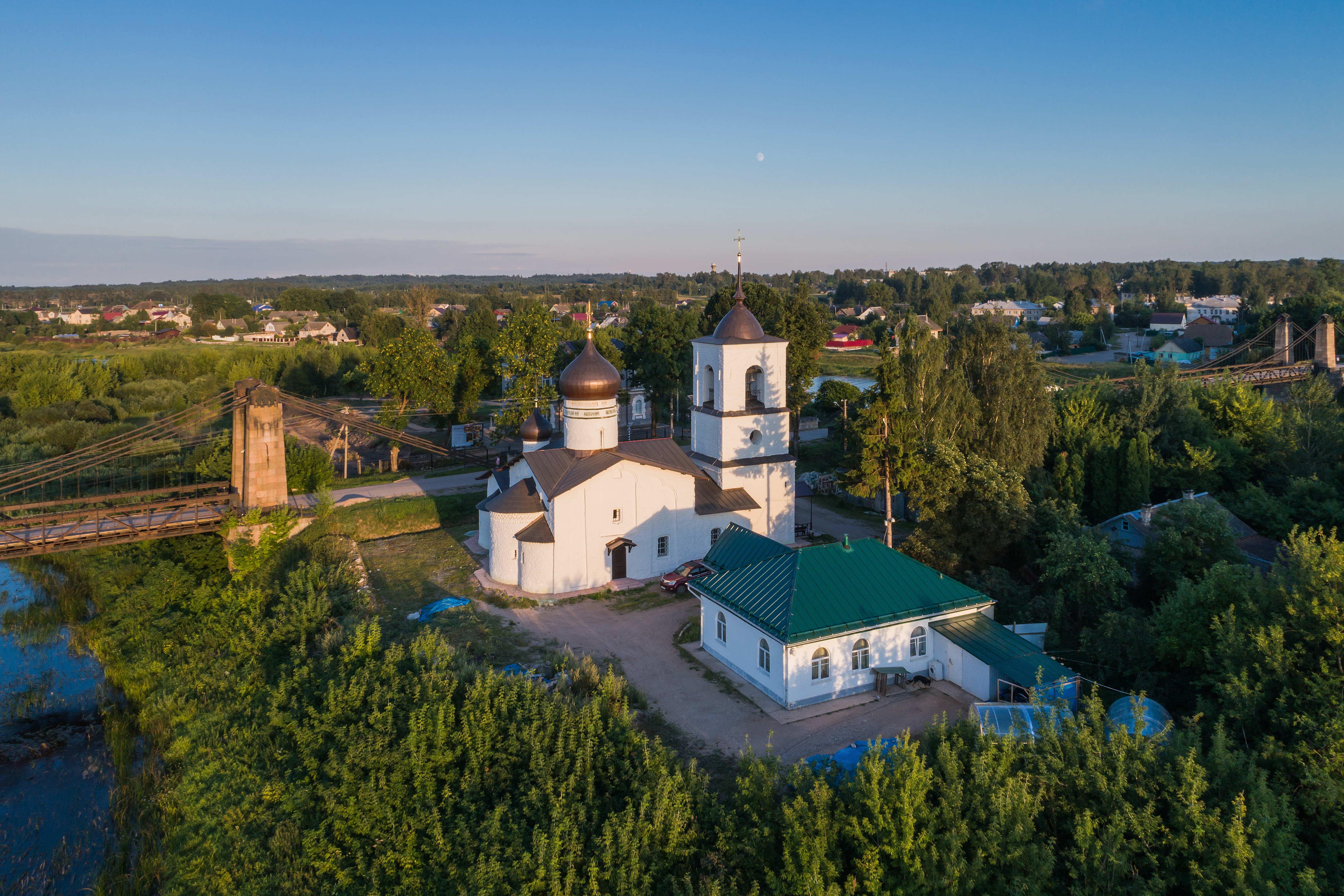 Aerial view – Saint Nicholas Church in Ostrov, Pskov Oblast, Russia.